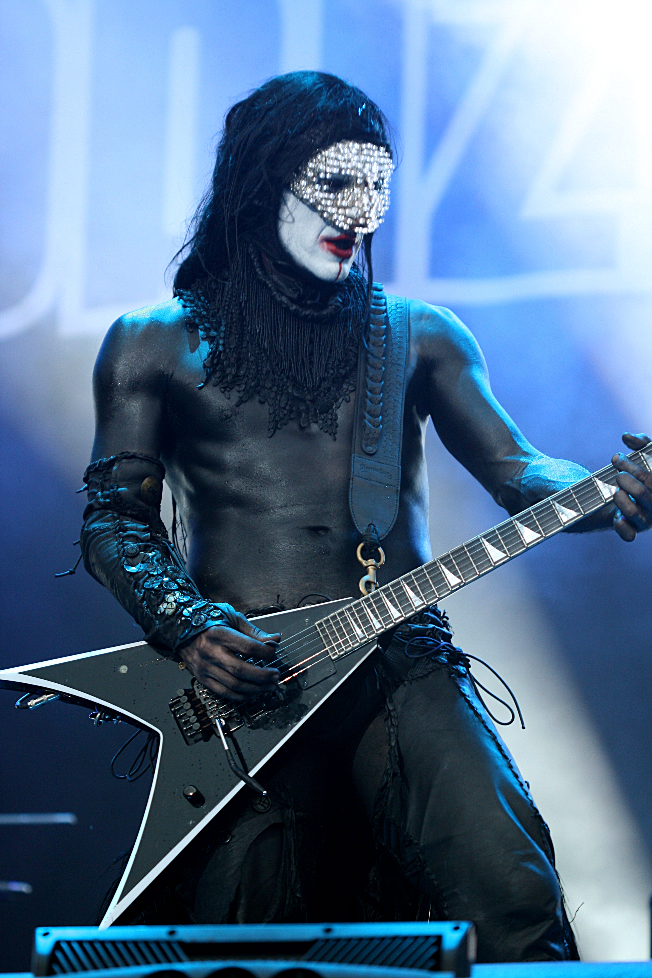 Wes Borland, guitarist of Limp Bizkit, on the Alterna Stage of Rock im Park-Festival 2013. Festivalsommer This photo was created with the support of donations to Wikimedia Deutschland in the context of the CPB project "Festival Summer".